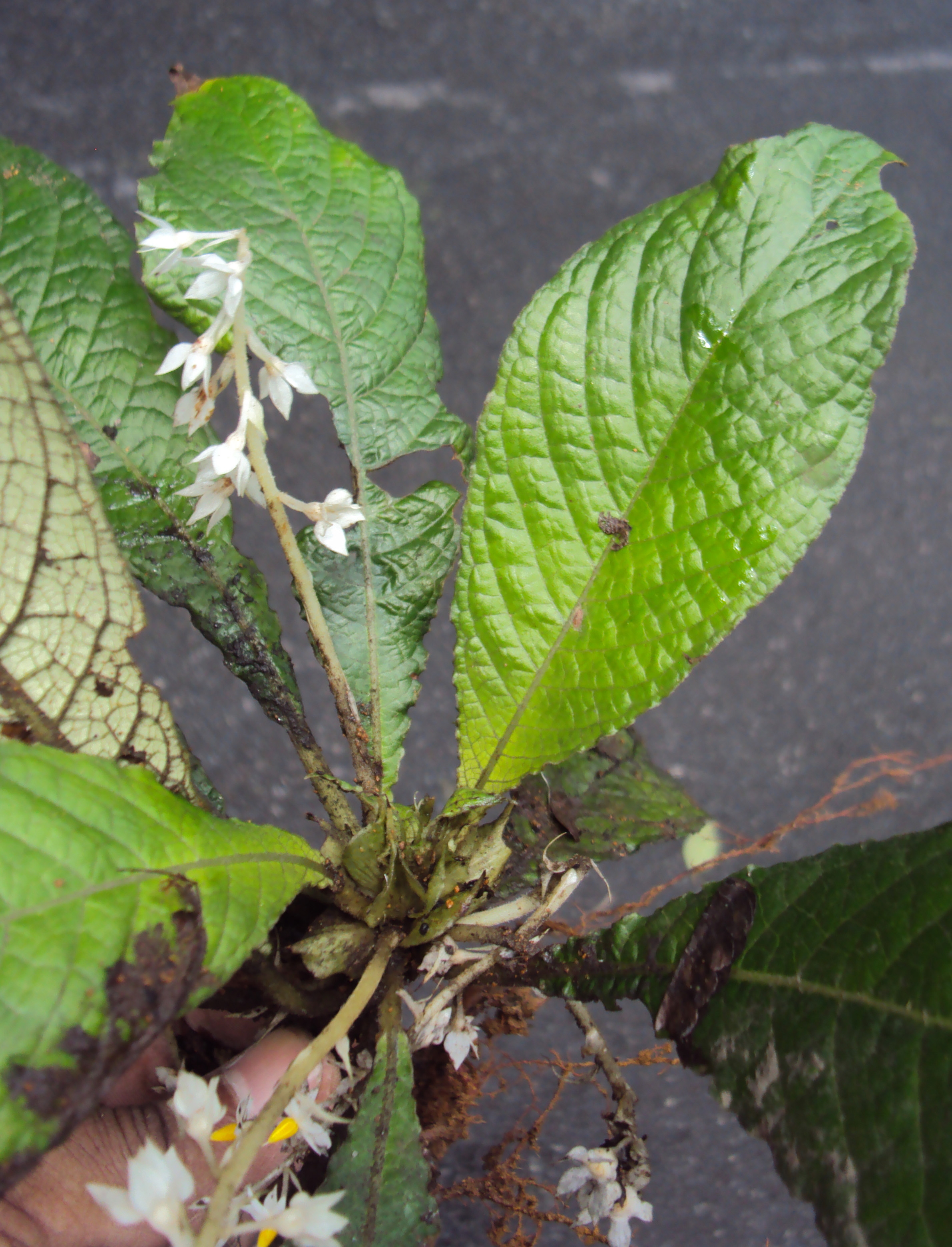 Neurocalyx calycinus